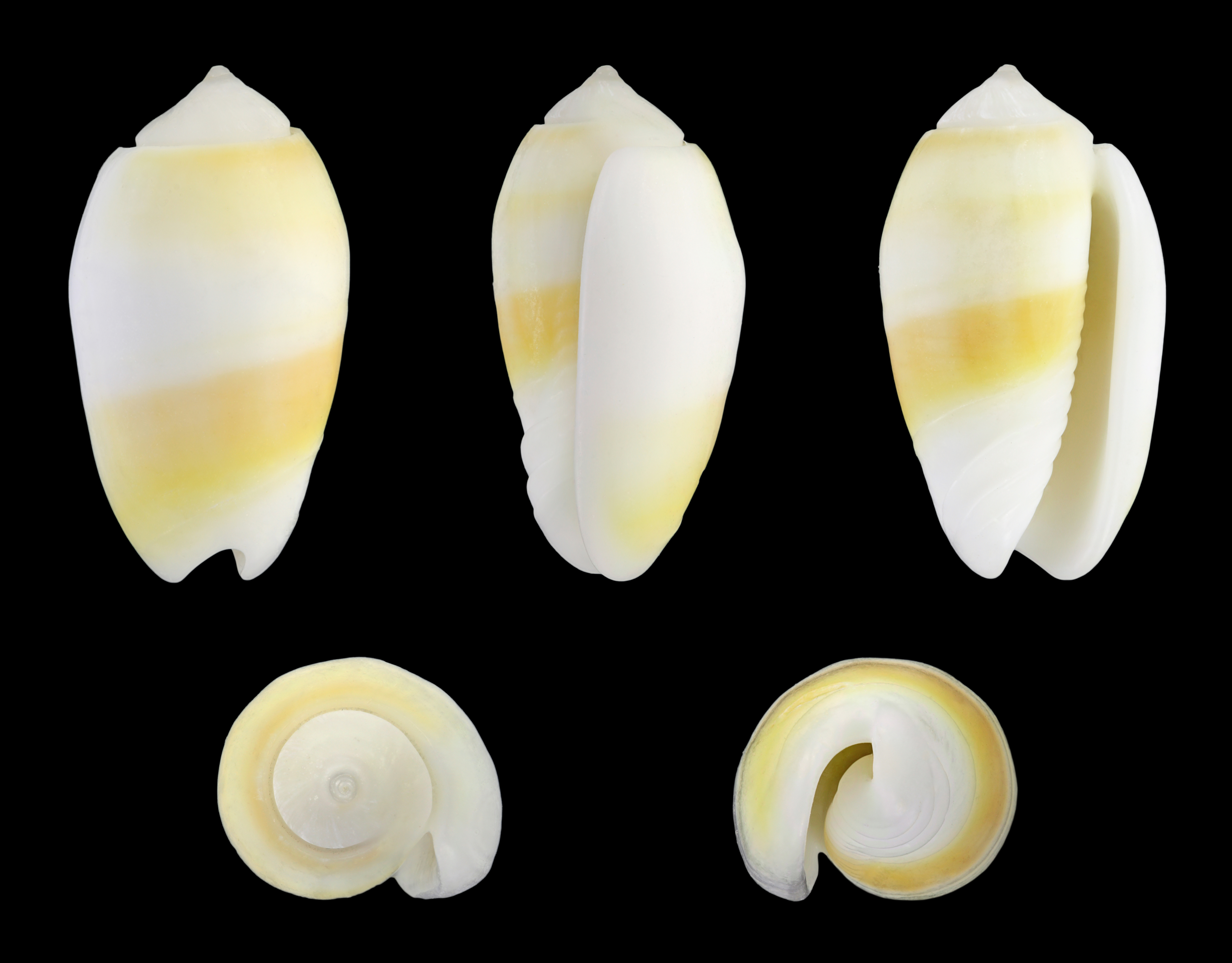 Length 1.9 cm; Originating from Cebu, Philippines; Shell of own collection, therefore not geocoded. Dorsal, lateral (right side), ventral, back, and front view.